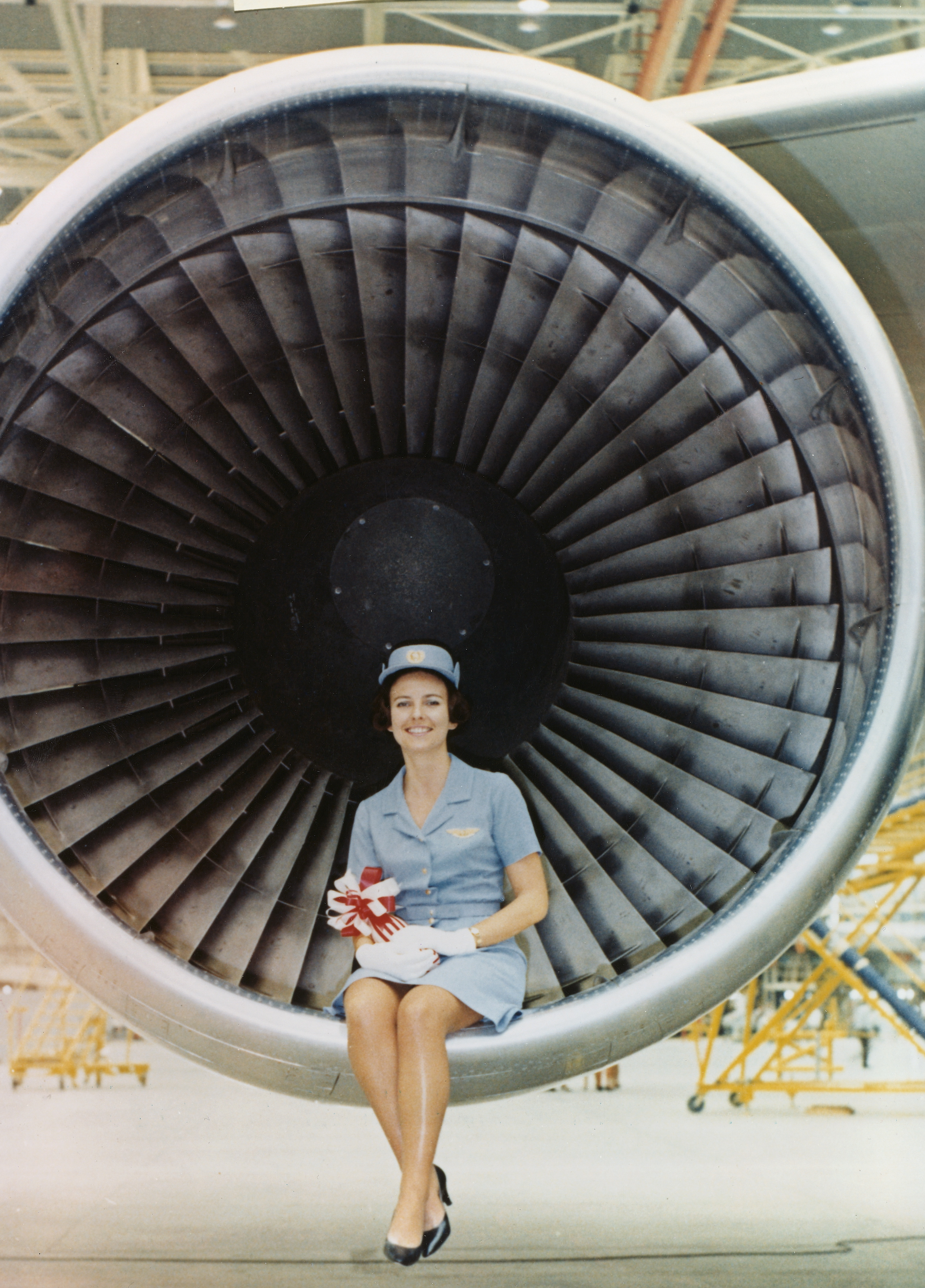 Air hostess is sittig on the impressive size of fan rotor to indicate how big fan rotor really is. Chief hostess Wiveca Ankarcrona